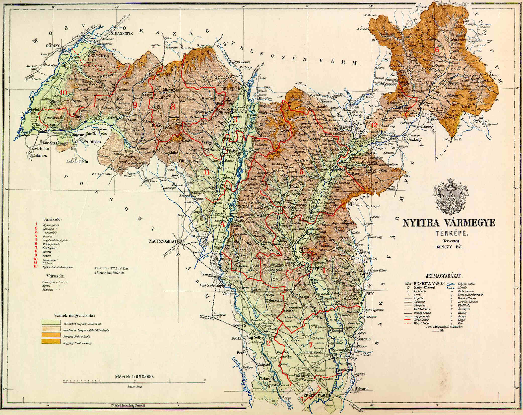 County of Nyitra in the pre-Trianon Kingdom of Hungary. Komitat Nyitra w Królestwie Węgier przed traktatem w Trianon.